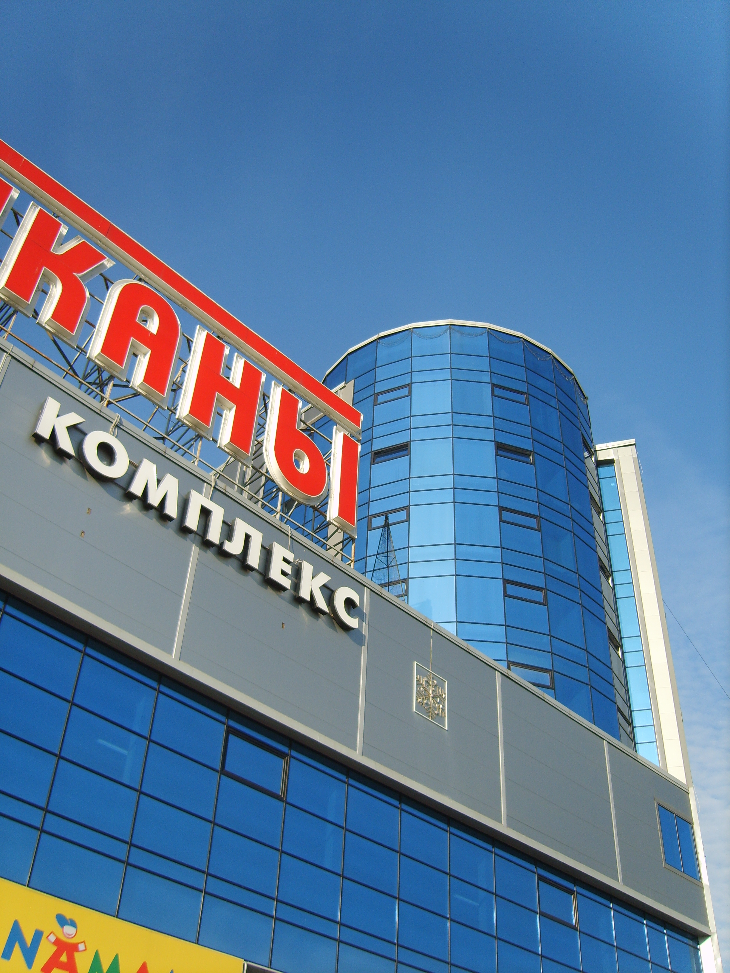 shops, St-Petersburg, Russia, Hi-tec